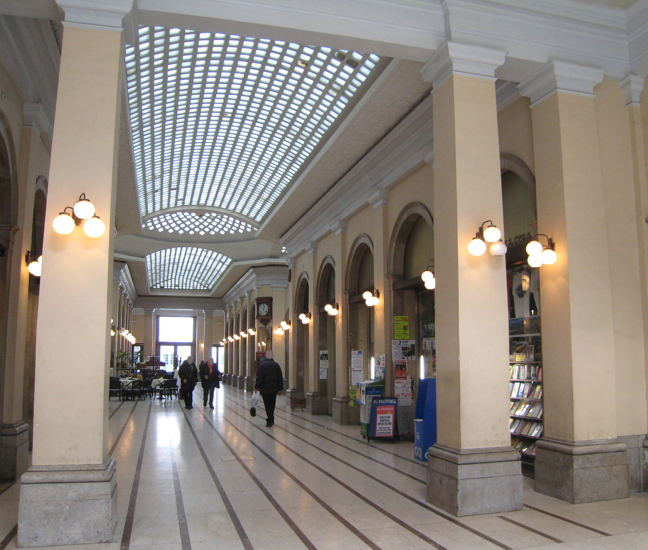 Palazzo del Tergesteo in Trieste, Inside, Italy